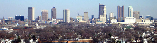 Photograph of the Columbus, Oh skyline. This photo was taken by me.